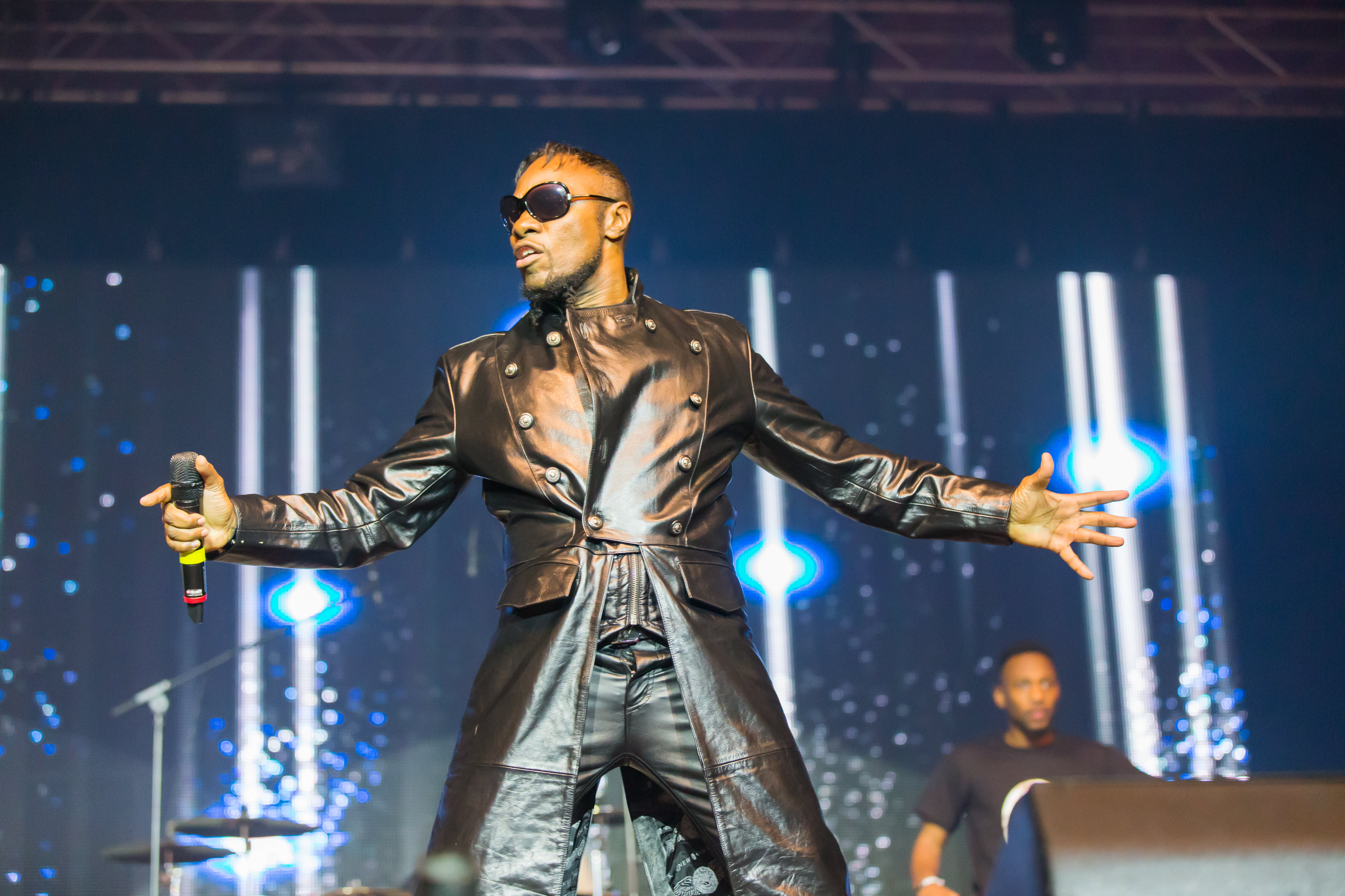 sunshine live "Die 90er - Live On Stage" Maimarkthalle Mannheim DJ Falk, Magic Affair, Captain Hollywood Project, Haddaway, Masterboy, 2 Unlimited, Marusha, Charly Lownoise